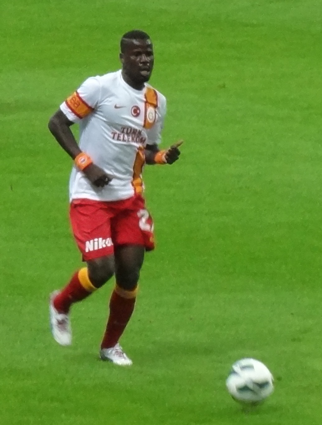 Eboue @ Es_Es